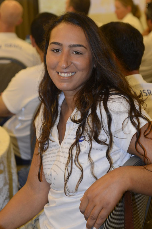 Vered Buskila, 2012